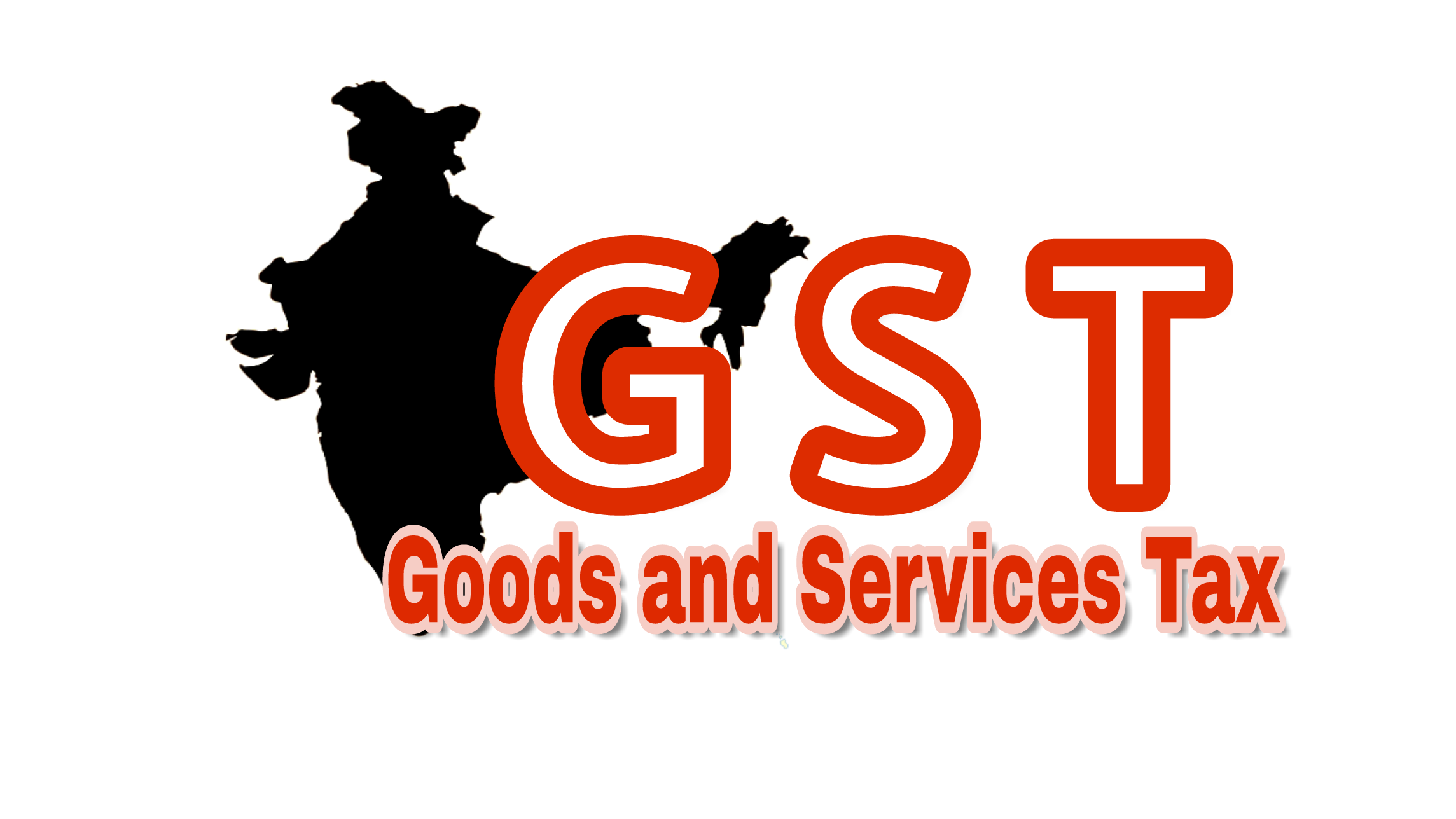 Goods and services tax outline image